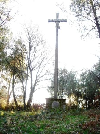 Bego's cross (1937)